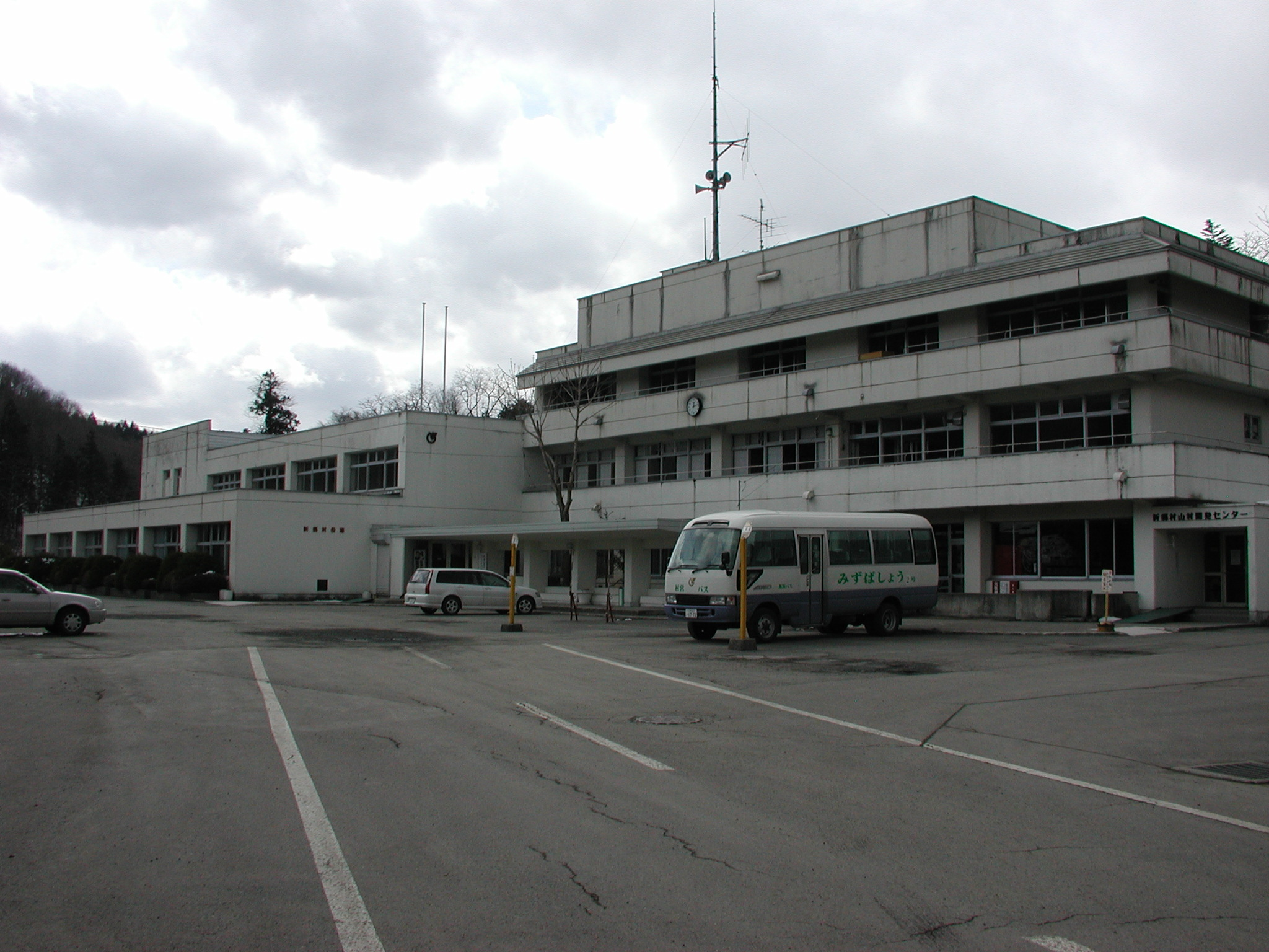 Shingo Village Office